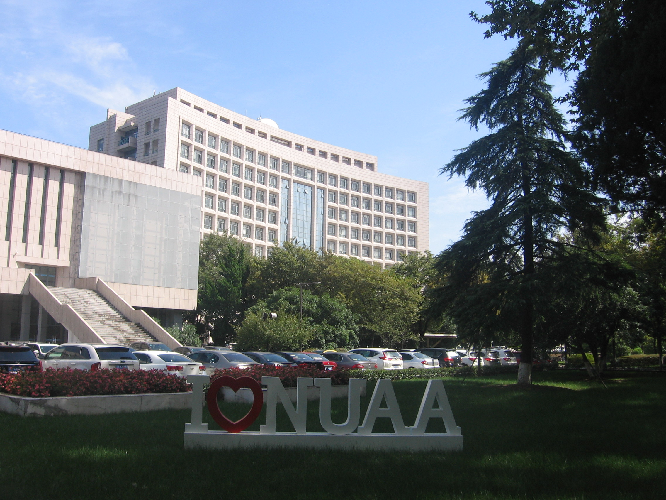 Ming Palace Campus of Nanjing University of Aeronautics and Astronautics